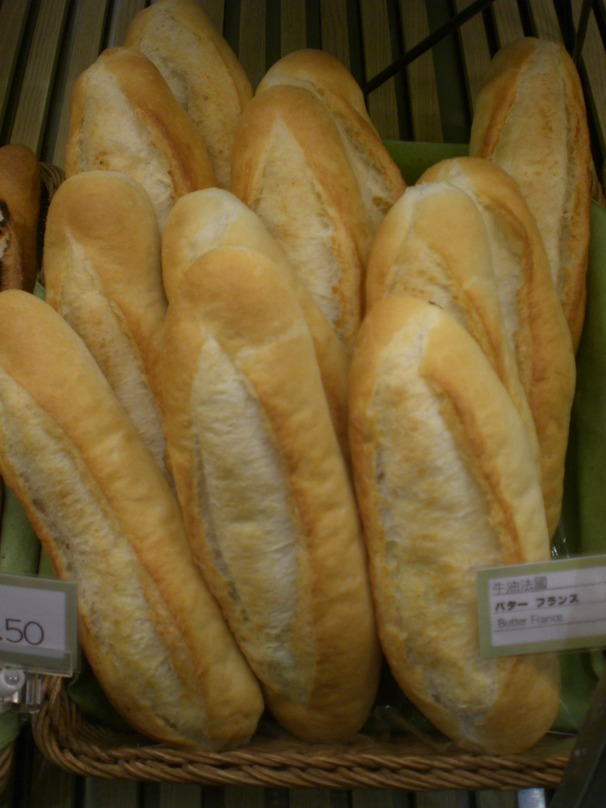 Panash Bakery & Café, Harbour City, TST, Hong Kong